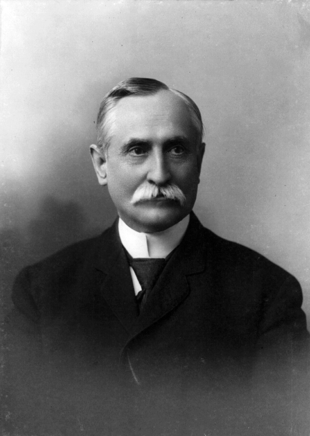 Calvin Augustine Frye, personal secretary to Mary Baker Eddy.